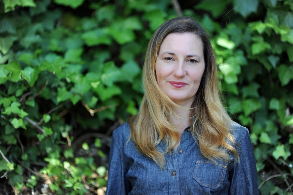 Michelle Richmond Photo, 2013